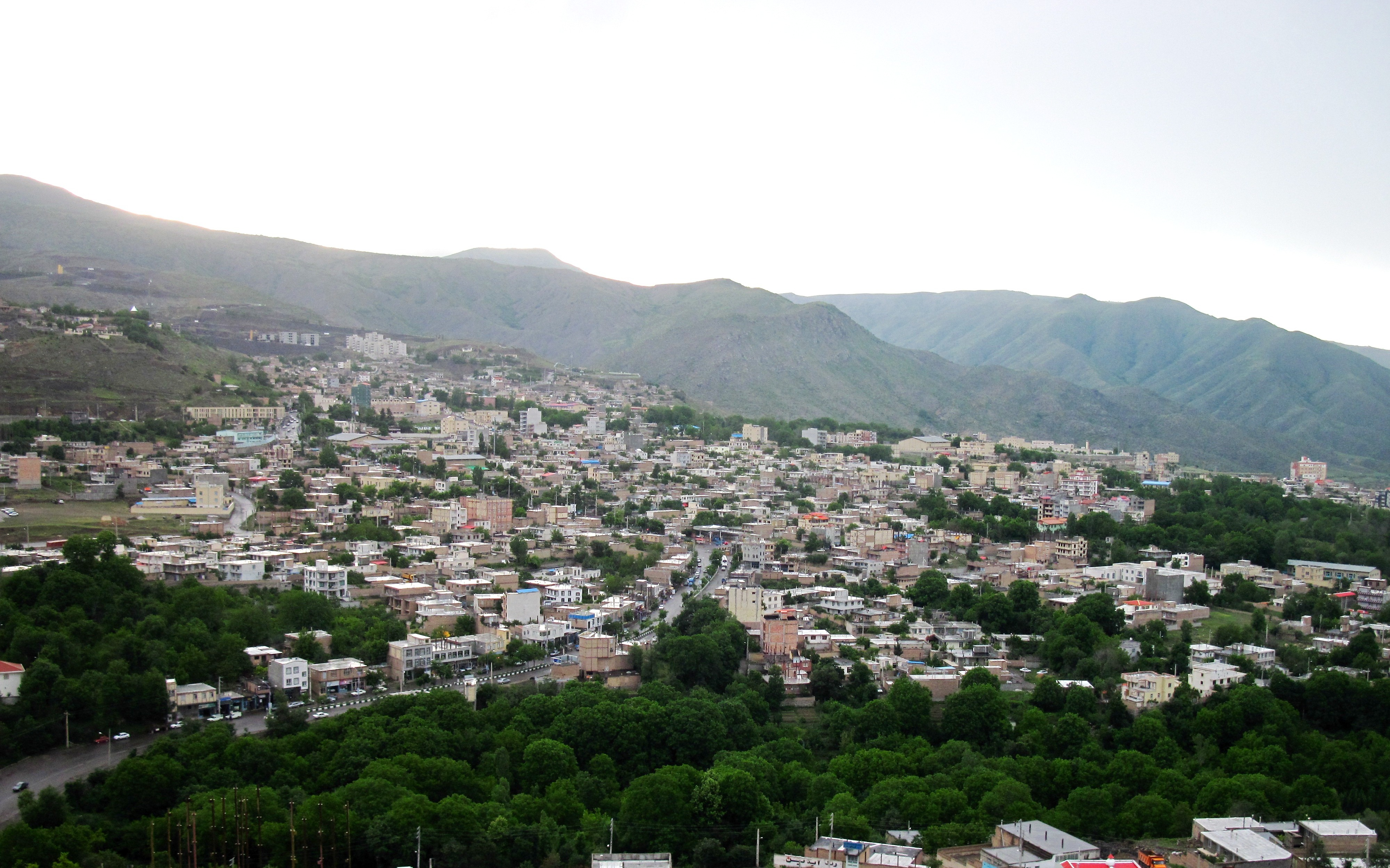 This photo of Kaleybar was taken by Ravanbakhsh Leysi.